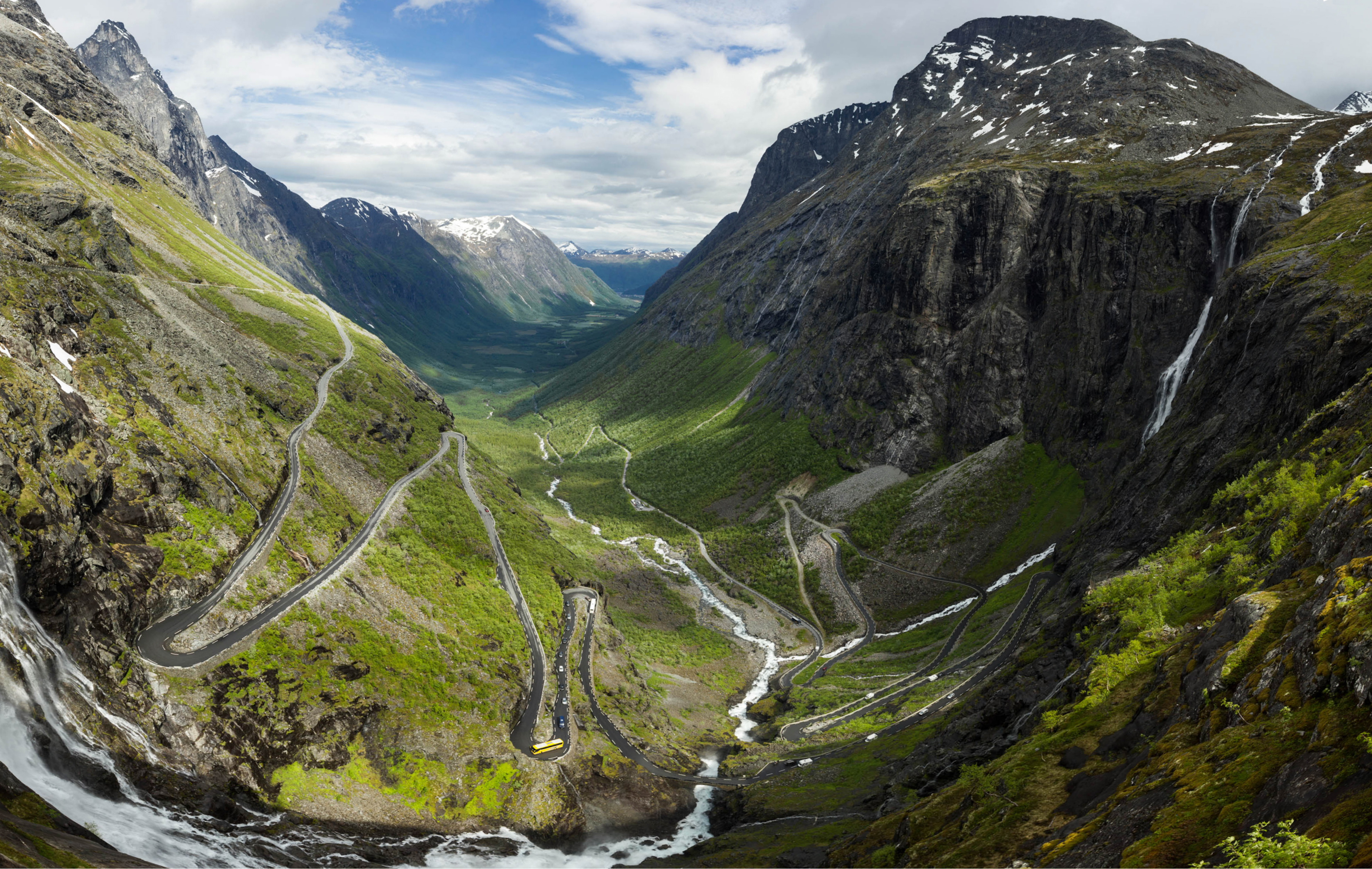 near Aurland, Norway